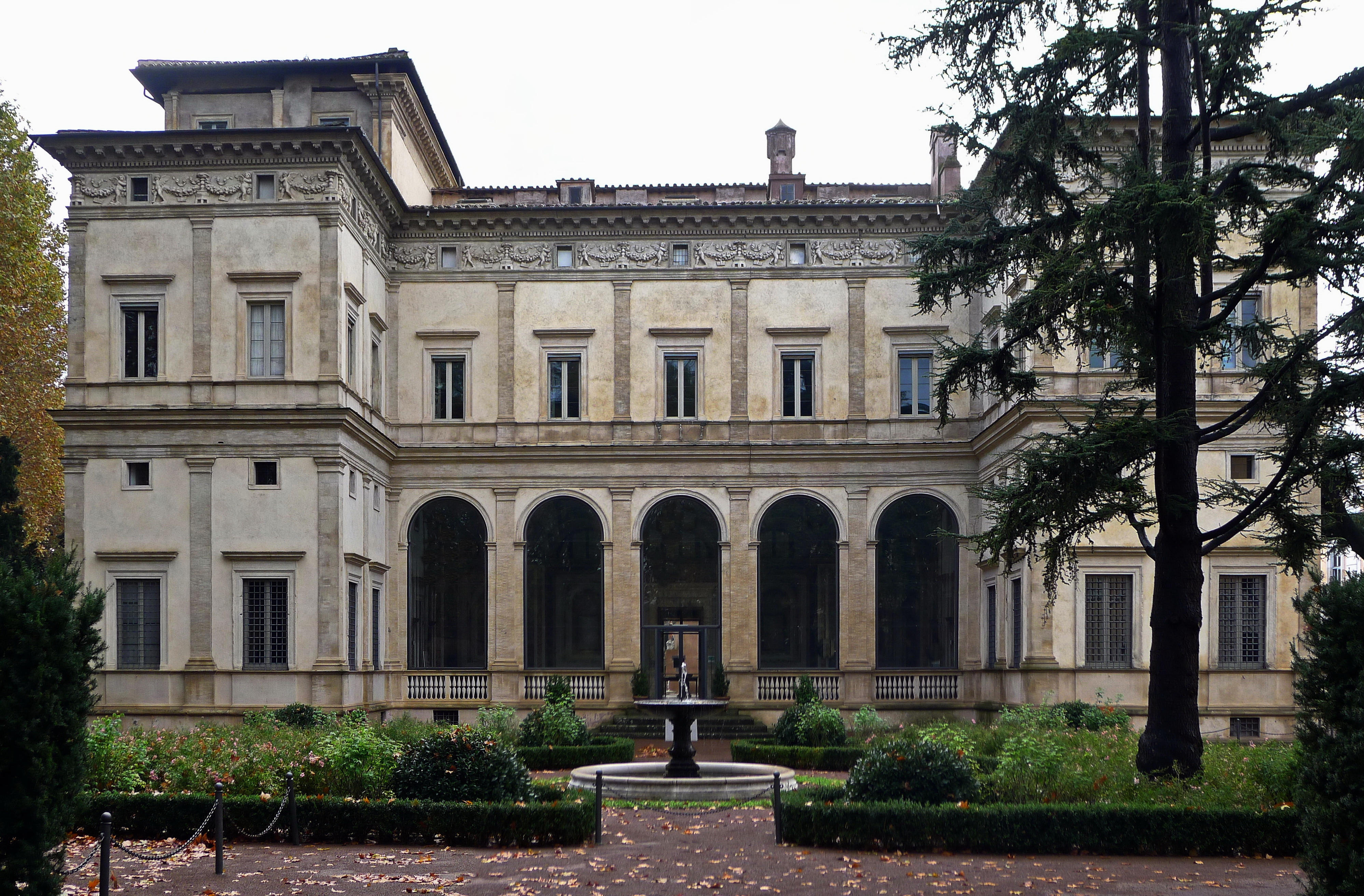 Villa Farnesina, North view